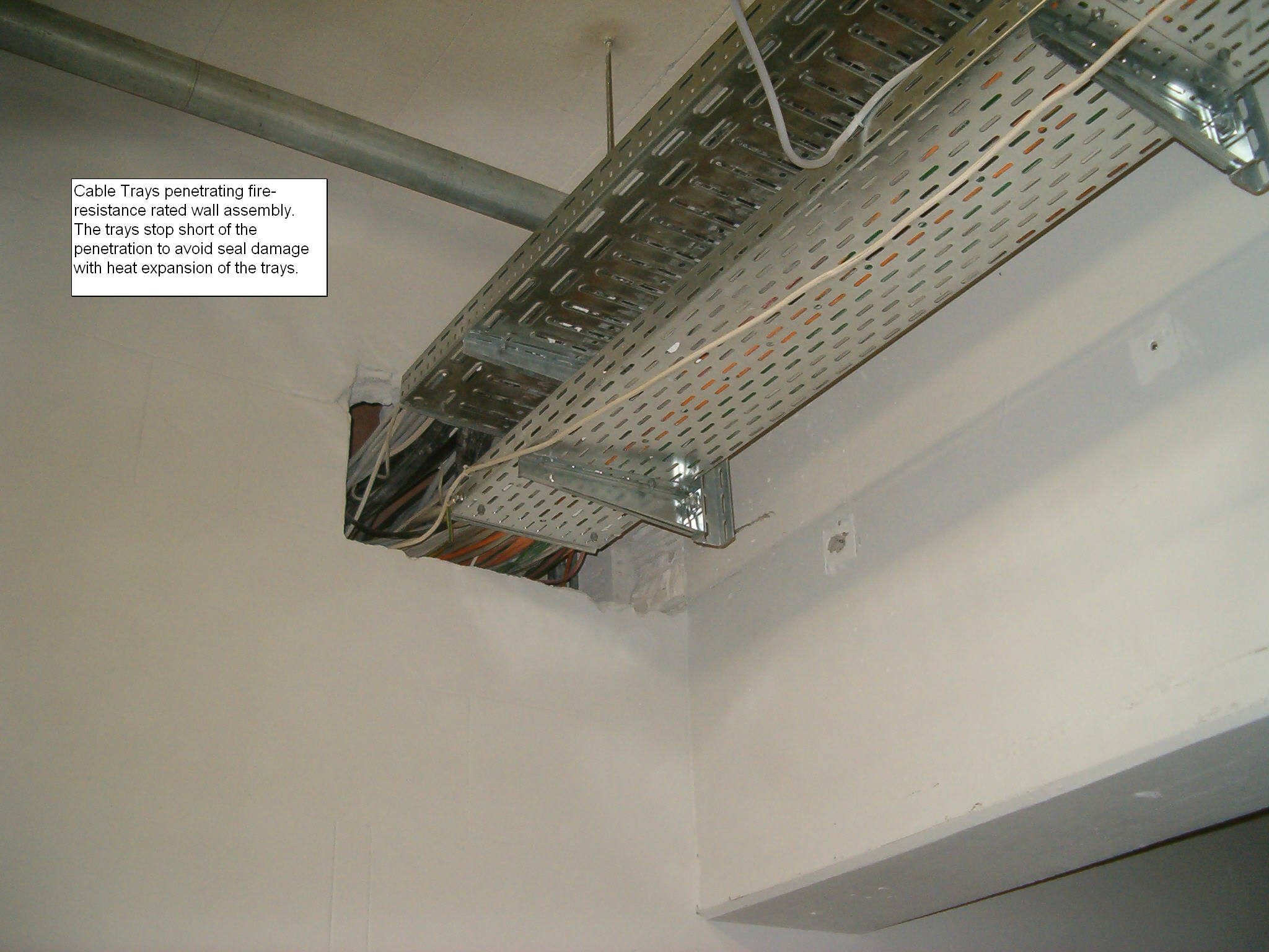 Cable tray ready for circuit integrity fireproofing and firestopping.